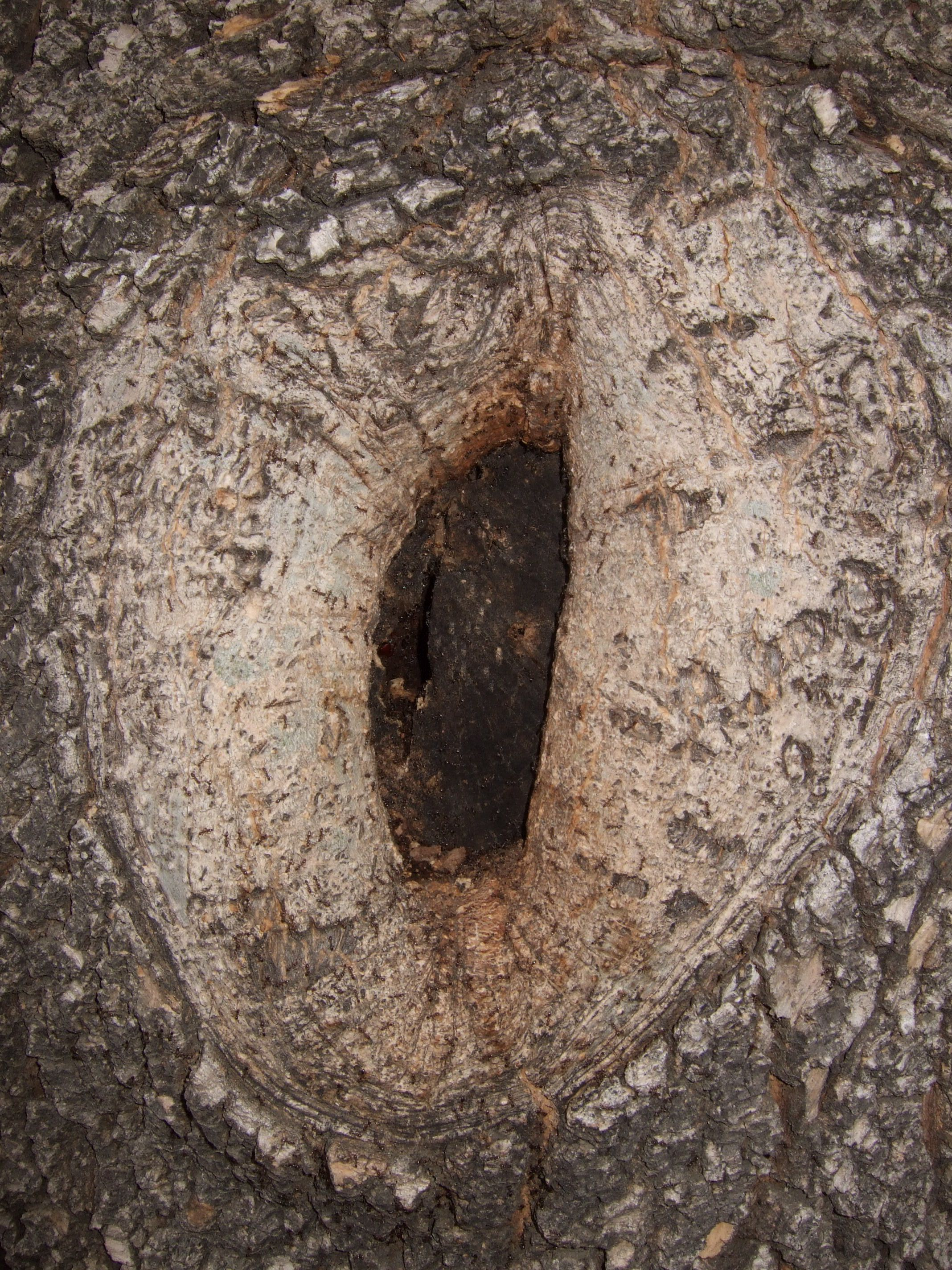 Tree trunk rotting from inside due to wrong pruning